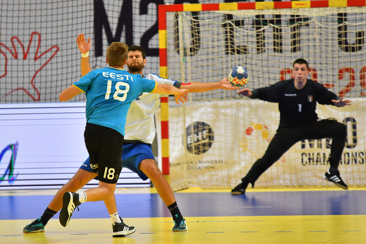 M20 EHF Championship 2018 in Skopje, Macedonia